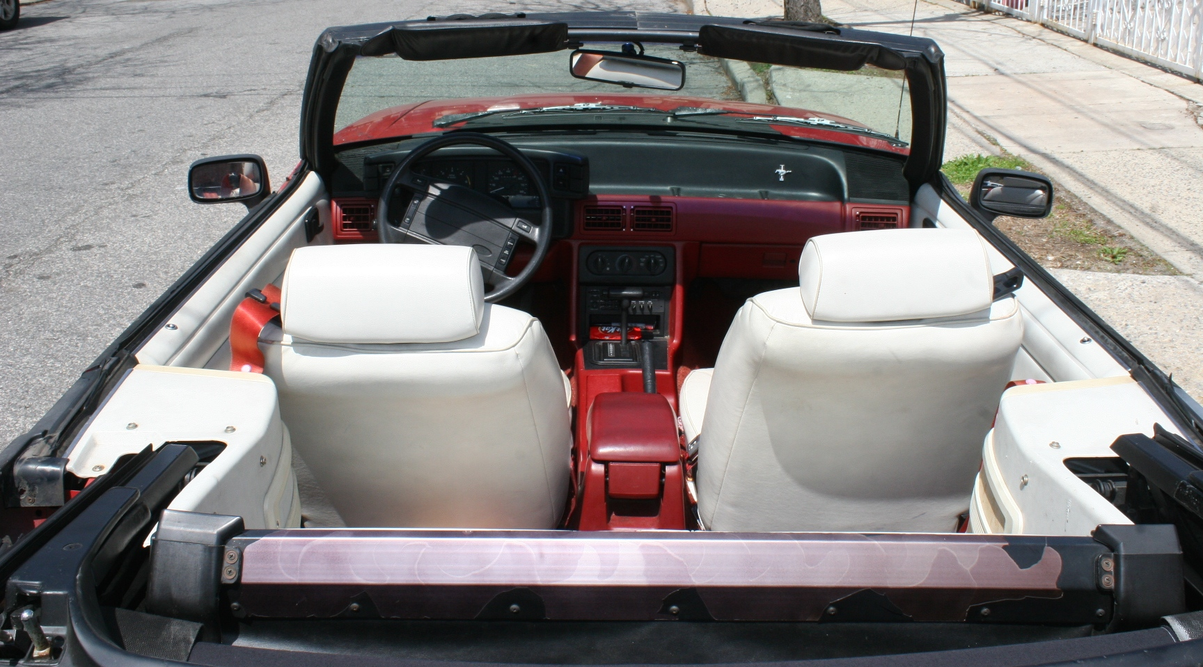 Top down and white, black and red interior.